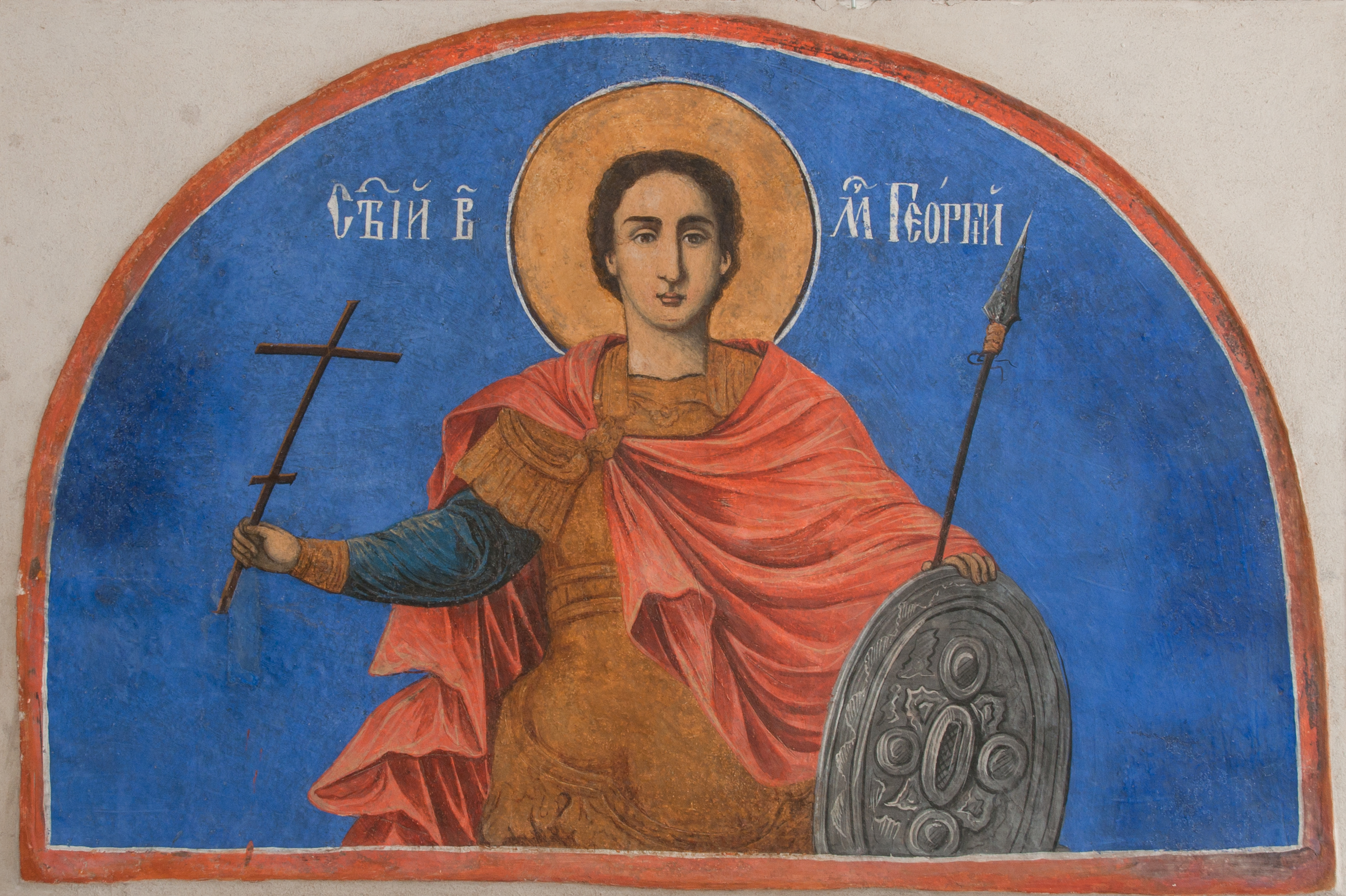 A medieval fresco that depicts St George, exhibited at St George church museum, Kyustendil, Bulgaria.